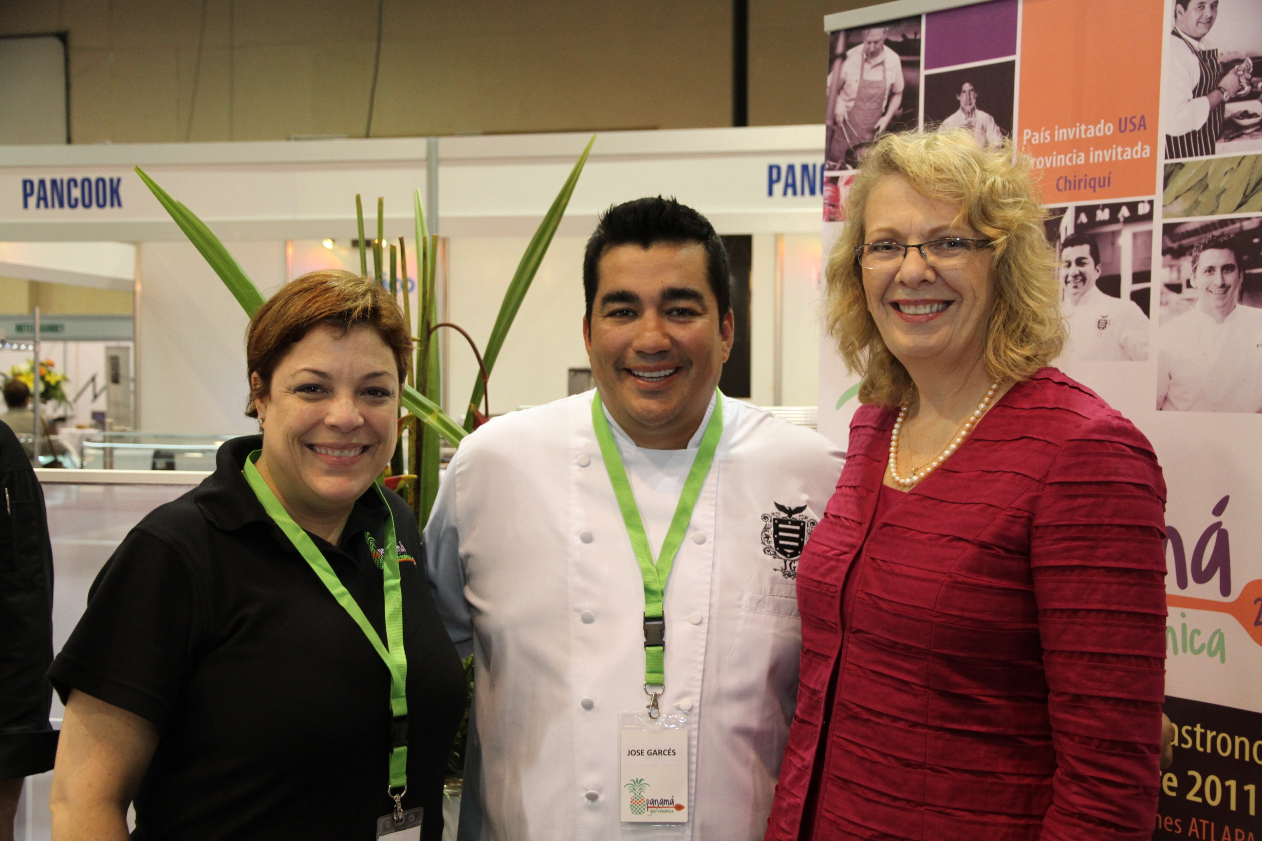 Pictured here at Panama Gastronomica are show organizer Elena Hernandez, Iron Chef Jose Garces, and U.S. Ambassador to Panama Phyllis Powers.